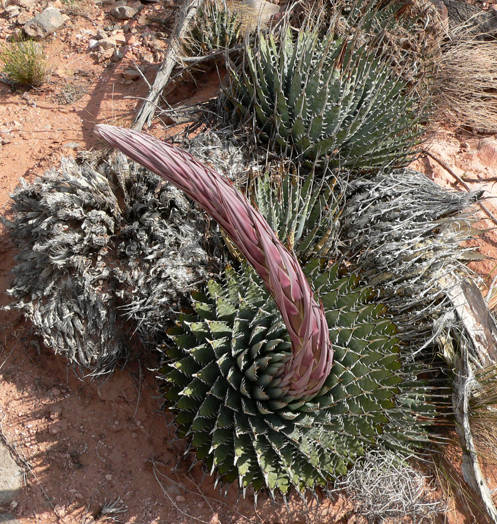 Agave utahensis var. nevadensis sending up flower stalk near Ash Creek Spring, Calico Basin, Spring Mountains, southern Nevada